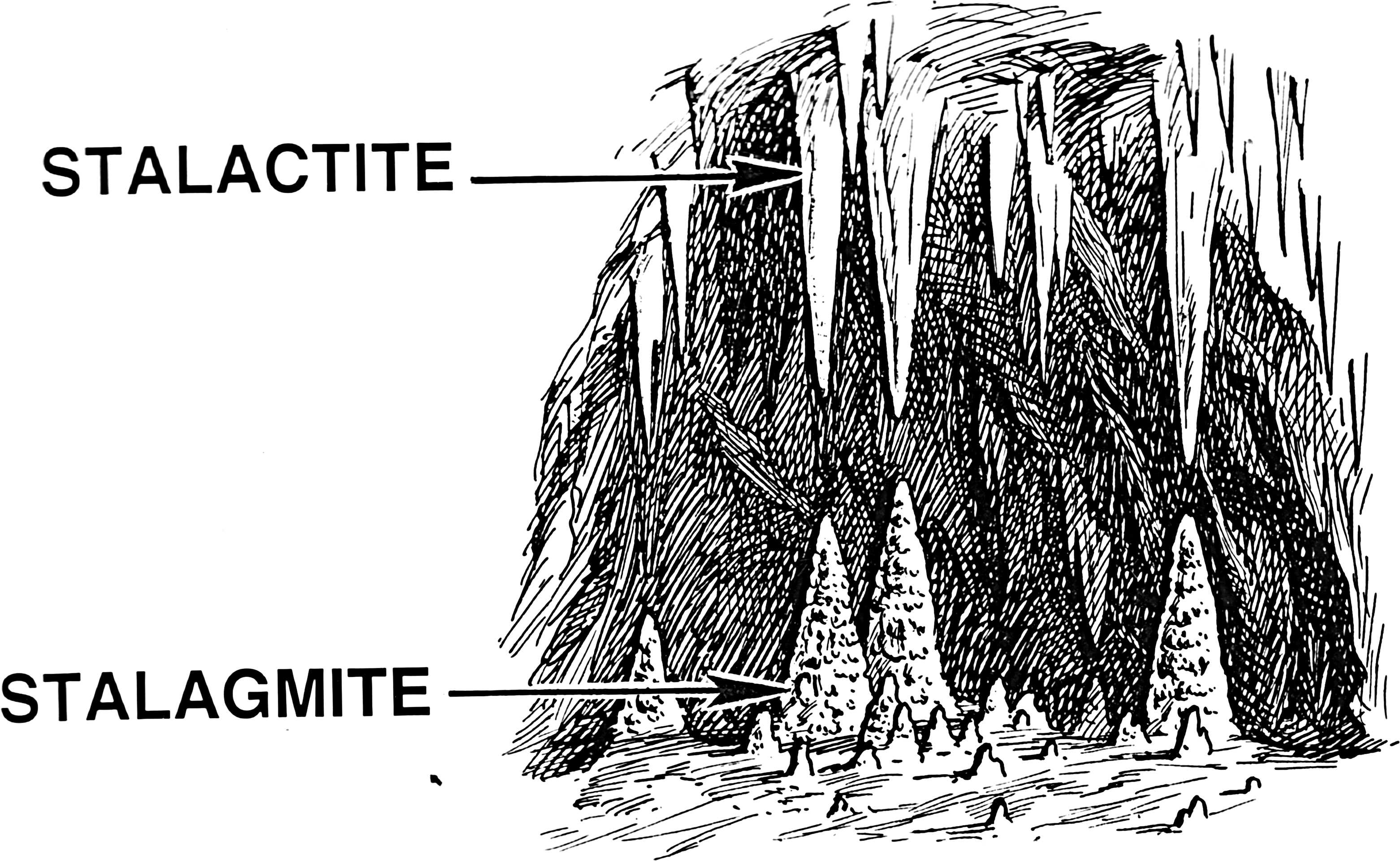 Line art representation of Stalactites